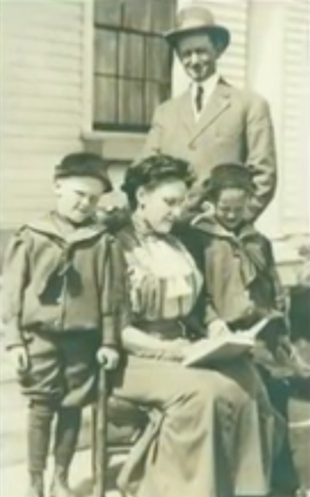 Nellie Tayloe Ross and William Ross with their twin sons.